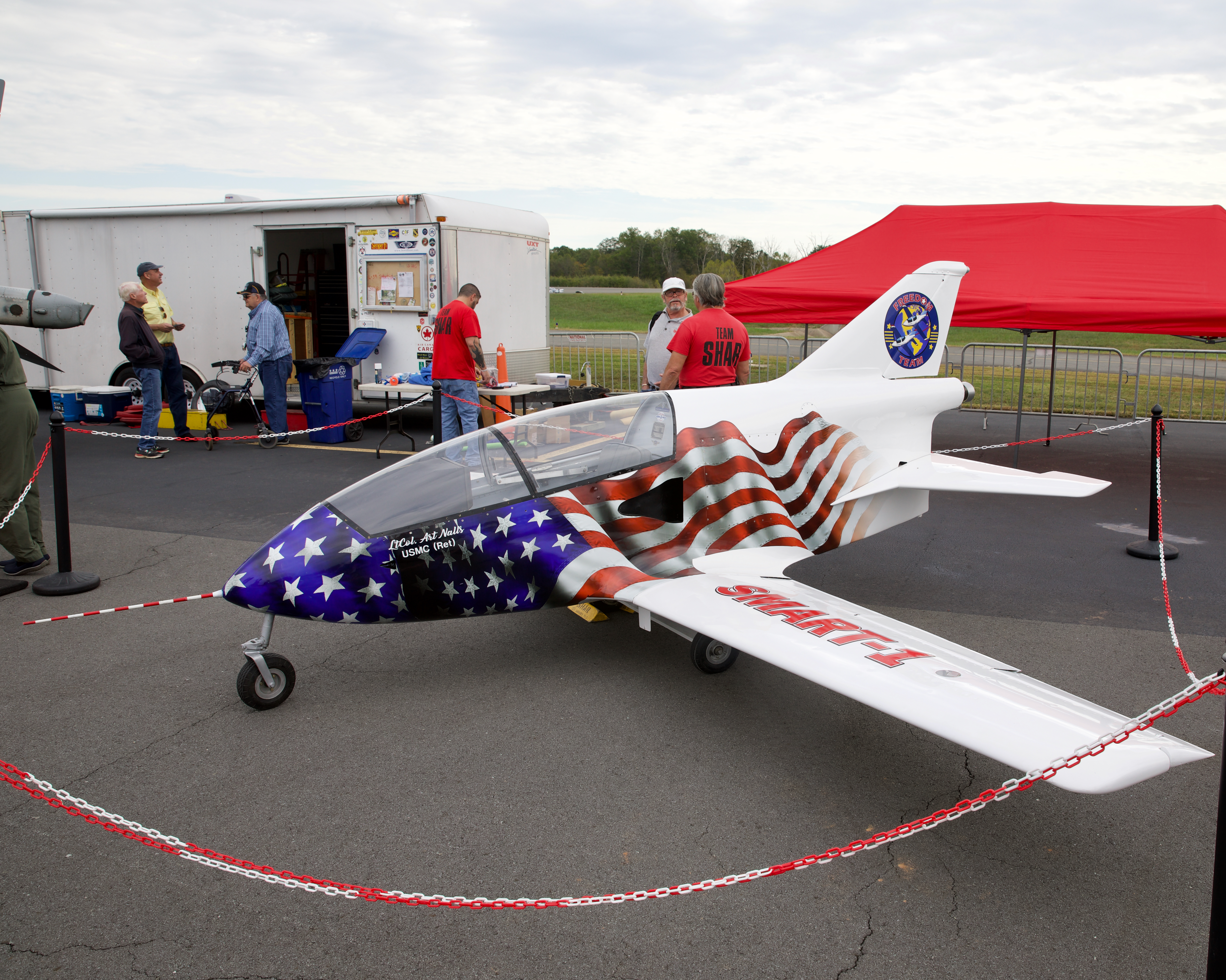 A Small Manned Aerial Radar Target, Model 1 (SMART-1) micro jet on static display a the Culpepper Air Fest. The SMART-1 is a variant of the BD-5J.